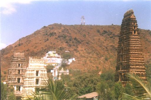 Mangalagiri, Andhra Pradesh